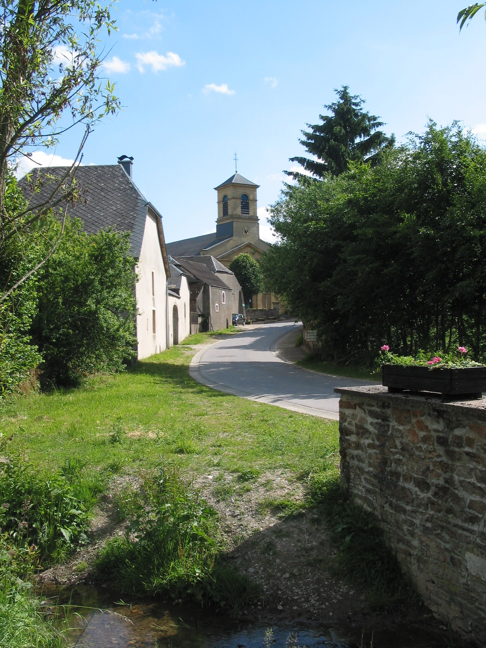 Nobressart (Belgium), rue de la Halle.